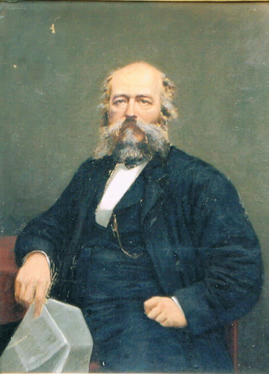 Charles Allen Duval - Self Portrait. Belongs to one of the artist's descendants. Charles Allen Du Val, also spelled duVal, (1810-1872), a Victorian portrait painter, photographer, literary critic, illustrator and writer.